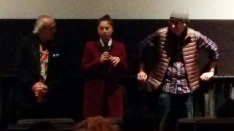 Pepe Serna, Ayako Fujitani, and Dave Boyle at a Q&A session for Man from Reno at the Sundance Kabuki in San Francisco, California, United States